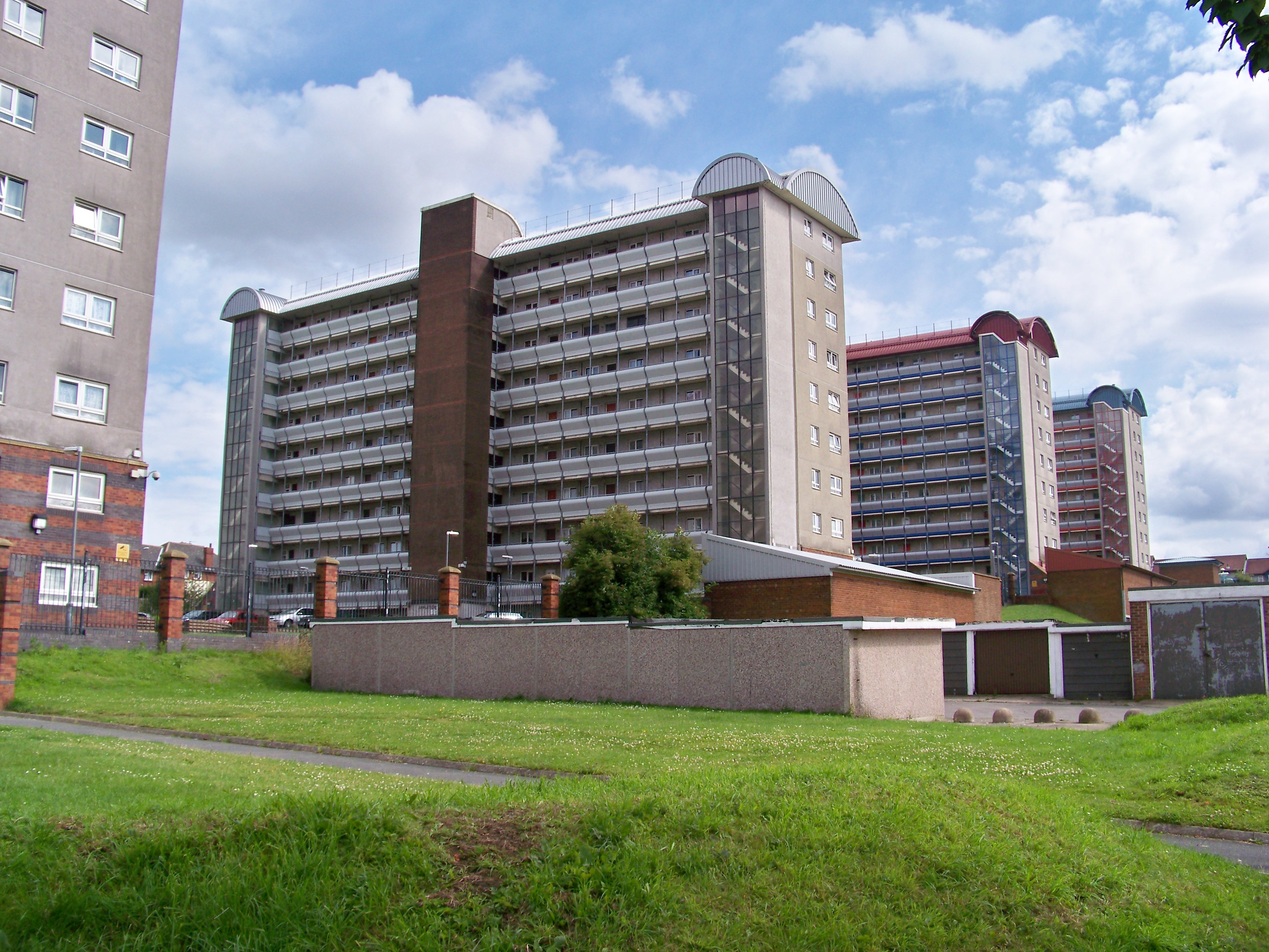 Ebor Gardens estate, Burmantofts, Leeds, West Yorkshire, UK. Taken on the afternoon of Saturday 18th July 2009.